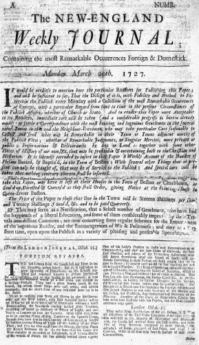 New England Weekly Journal.; Date: 03-20-1727 (Boston, Massachusetts) Further information: American Antiquarian Society. Catalog.